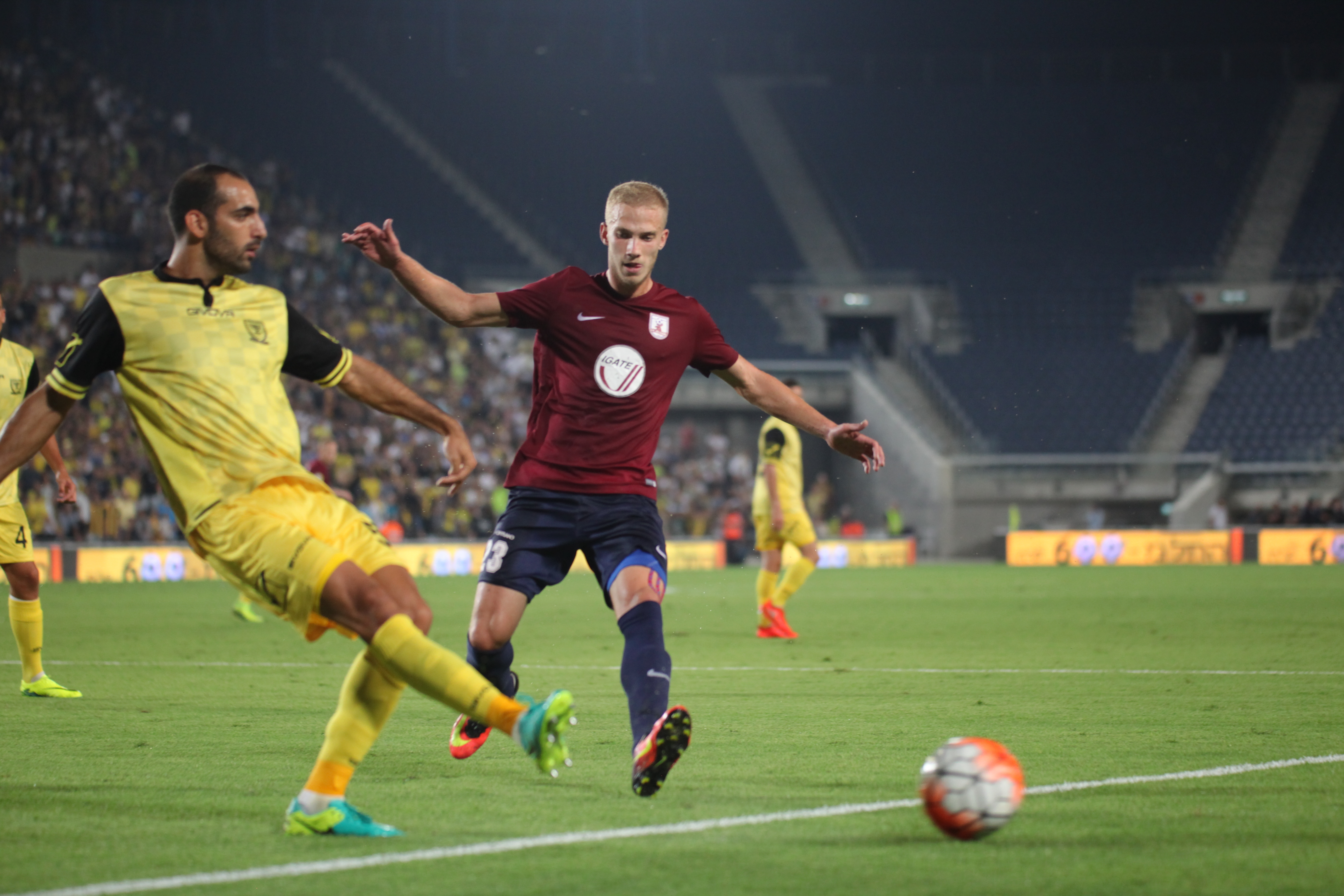 Gļebs Kļuškins against Beitar Jerusalem August 4, 2016